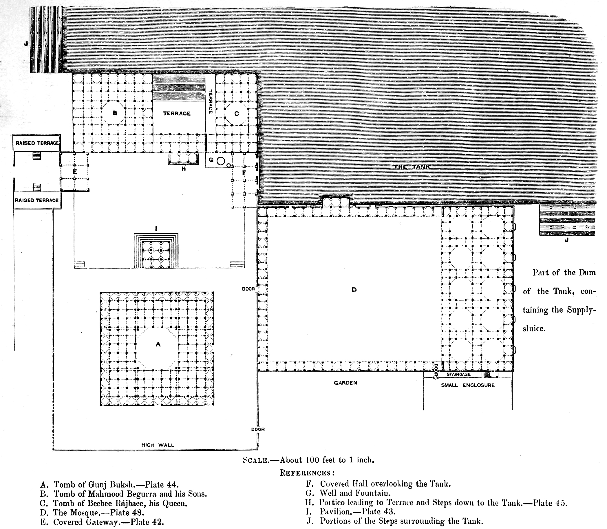 Image taken from: Title: "Architecture at Ahmedabad, the Capital of Goozerat, photographed by Colonel Biggs, ... With an historical and descriptive sketch, by T. C. H., ... and architectural notes by J. Fergusson, etc" Author: HOPE, Theodore Cracraft - Sir, K.C.S.I Contributor: BIGGS, Thomas. Contributor: FERGUSSON, James - Architect Shelfmark: "British Library HMNTS 10057.f.17.", "British Library OC V 6665" Page: 75 Place of Publishing: London Date of Publishing: 1866 Issuance: monographic Identifier: 001730119 Note: The colours, contrast and appearance of these illustrations are unlikely to be true to life. They are derived from scanned images that have been enhanced for machine interpretation and have been altered from their originals. If you wish to purchase a high quality copy of the page that this image is drawn from, please order it here. Please note that you will need to enter details from the above list - such as the shelfmark, the page, the book's volume and so on - when filling out your order. Following this or the link above will take you to the British Library's integrated catalogue. You will be able to download a PDF of the book this image is taken from, as well as view the pages up close with the 'itemViewer'. Click on the 'related items' to search for the electronic version of this work. Click here to see all the illustrations in this book and click here to browse other illustrations published in books in the same year. Please click on the tags shown on the right-hand side for other ways to browse the illustrations.